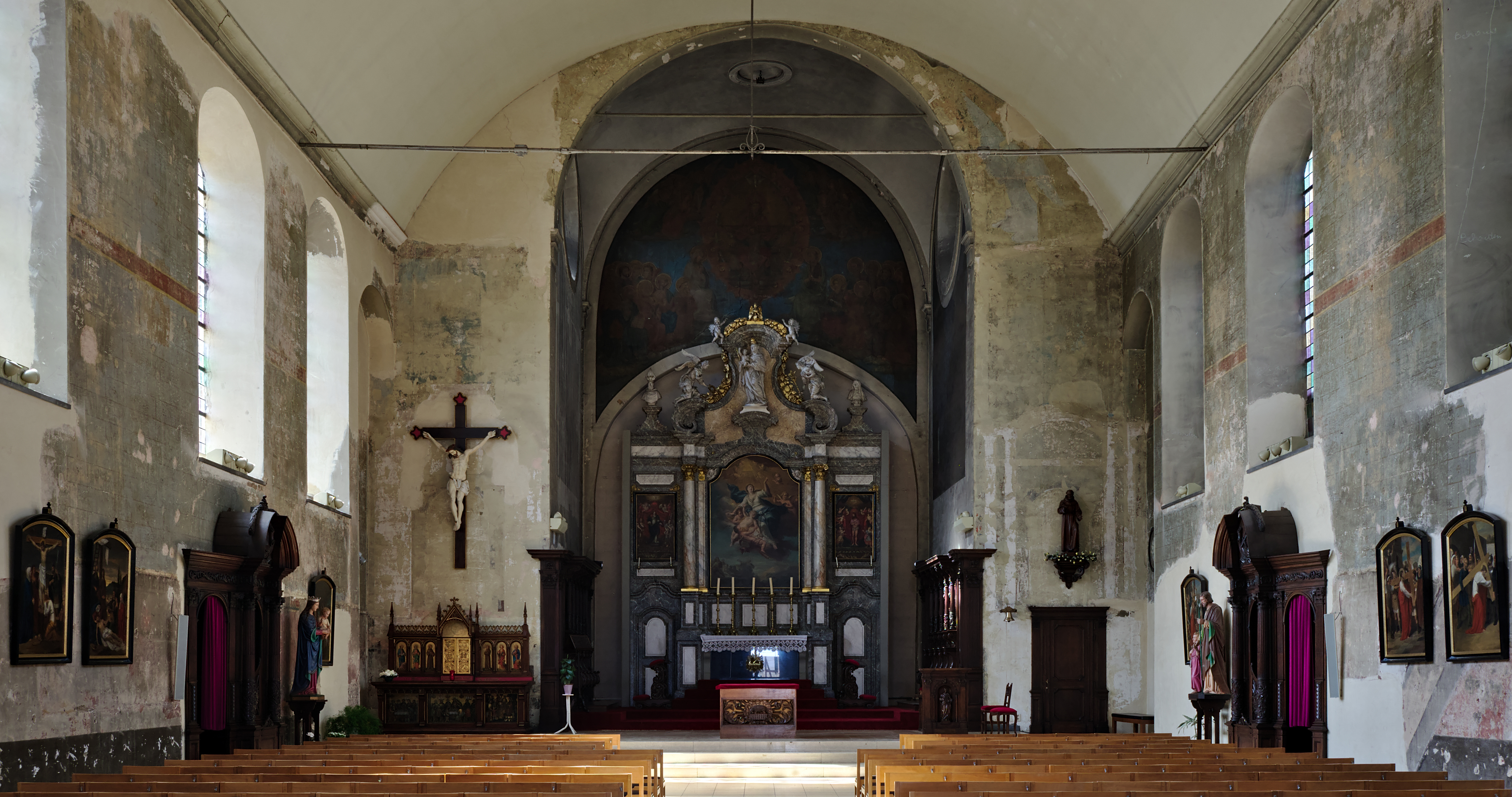 Interior of the Saint Francis church in Menen, Belgium This photo of immovable heritage has been taken in the Flemish Region